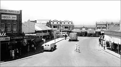 Bankstown Plaza, before it was a plaza